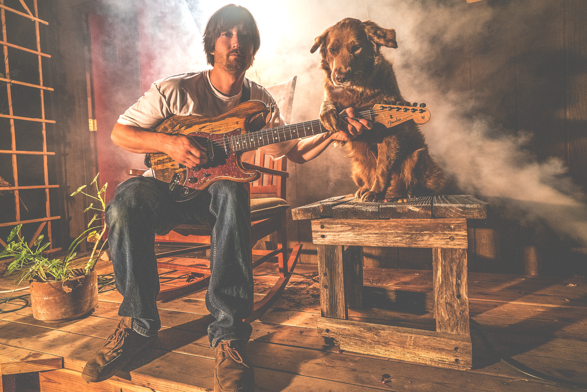 Photo by Joe Wilson.